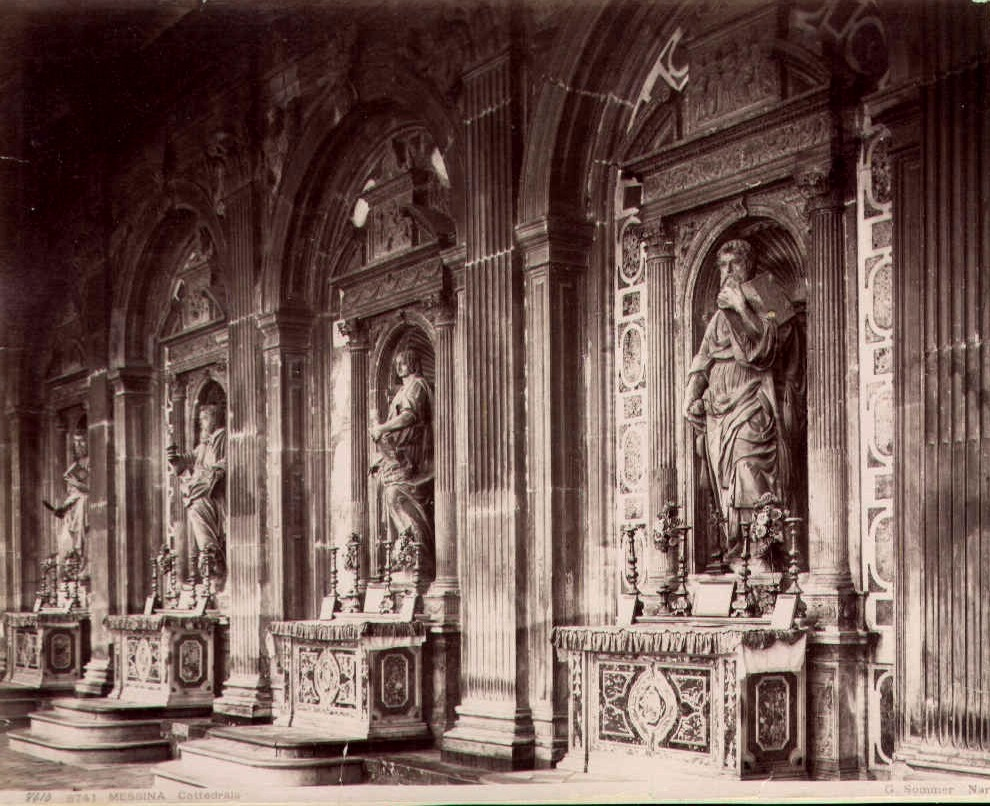 Giorgio Sommer (1834-1914),"Messina - Cathedral". Catalogue # 1743. Before 1908 2007.